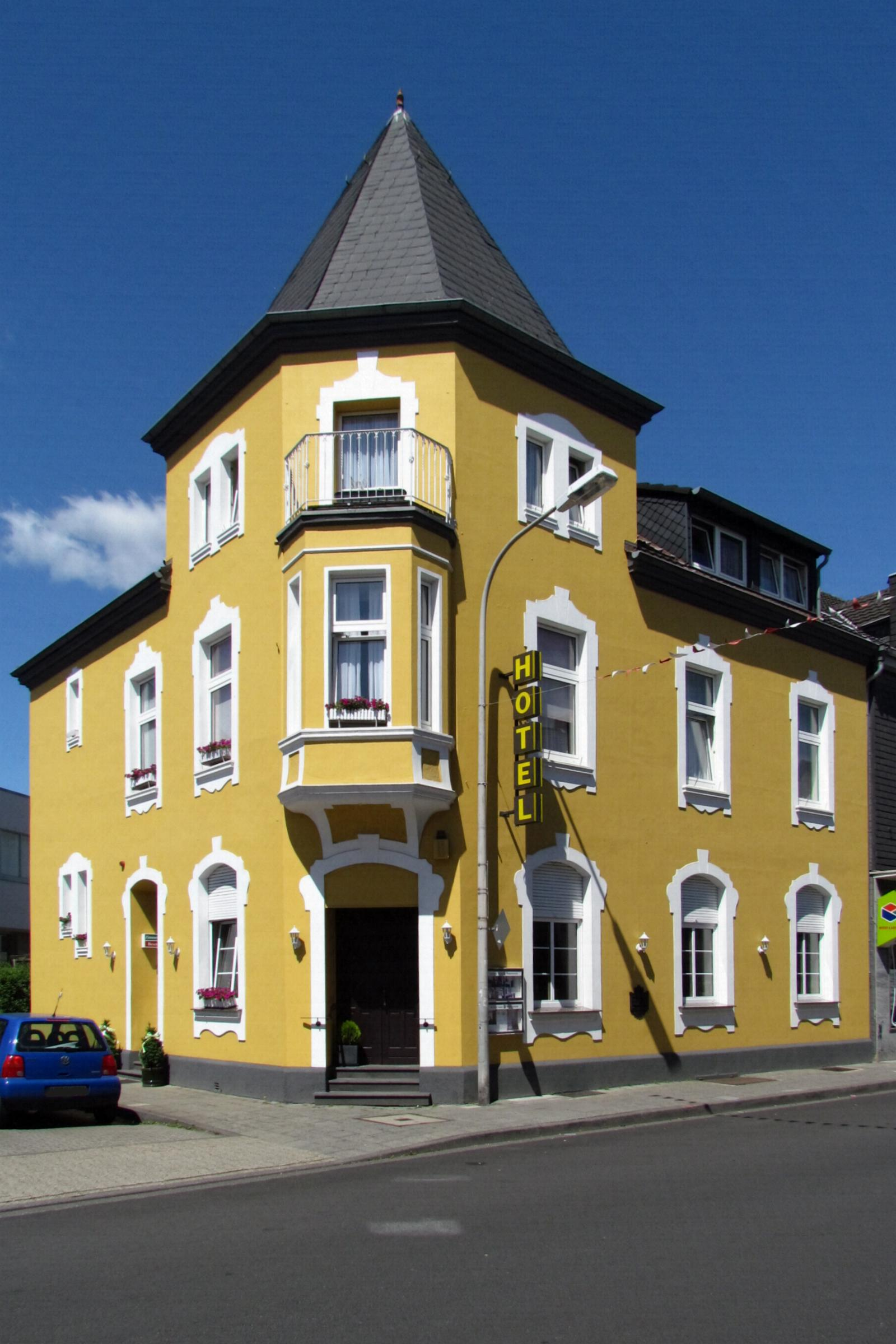 This is a photograph of an architectural monument.It is on the list of cultural monuments of Korschenbroich